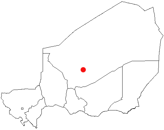 Agadez, Niger Location Map; created with the GIMP. Made by User:Acntx.